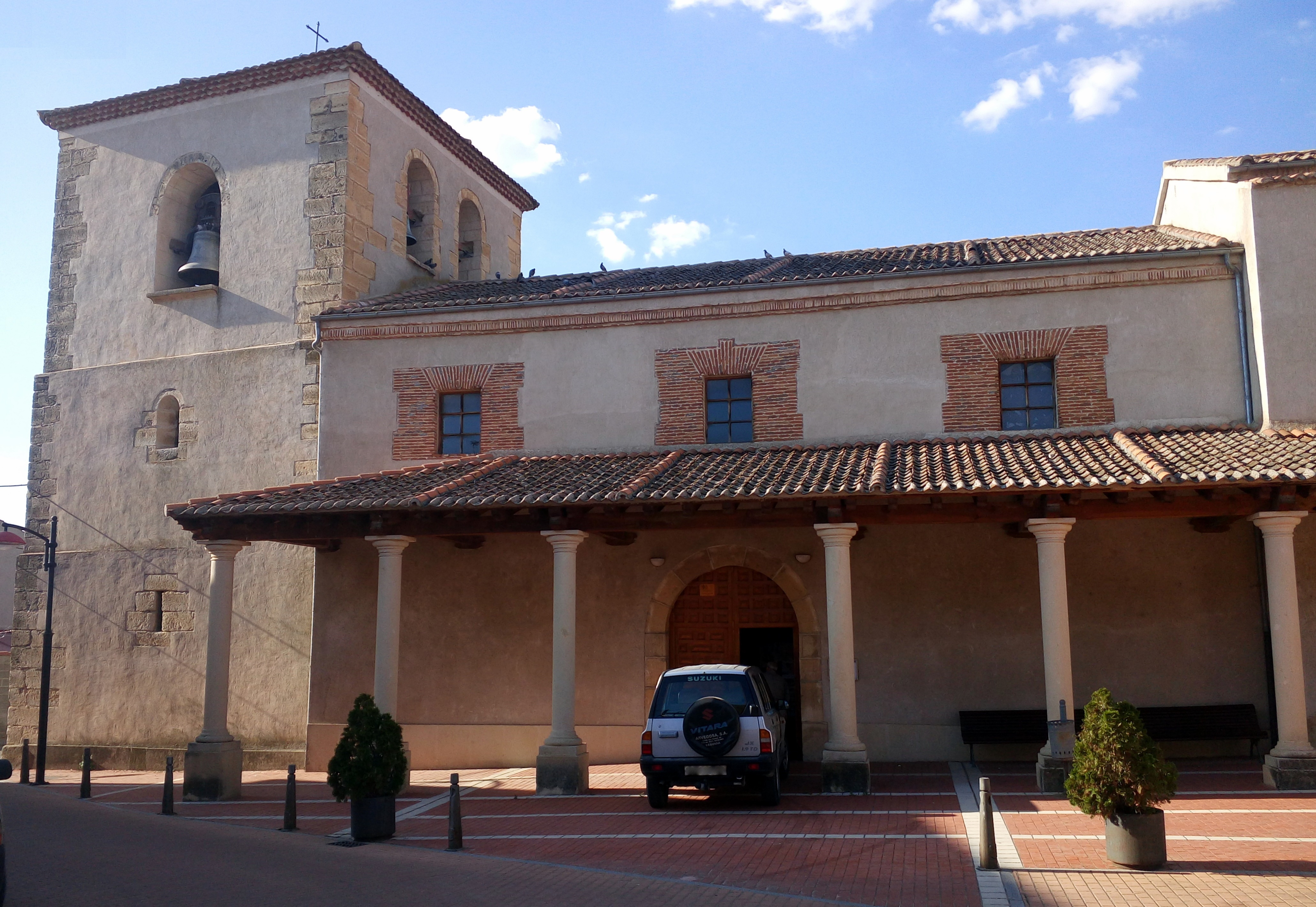 Church of Our Lady of the Assumption in Cabezuela, Segovia, Spain.